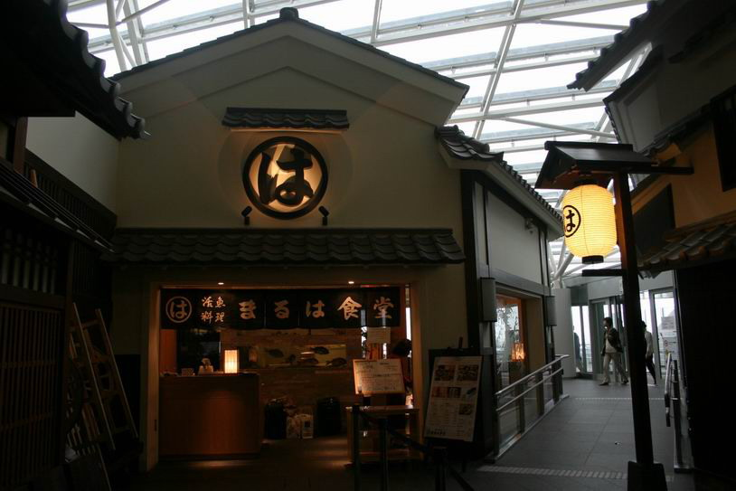 Centair (Central Japan International Airport) in Nagoya, Japan